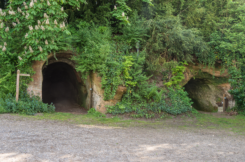 Caves